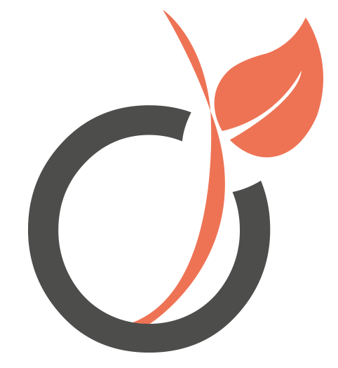 Logo Viadeo